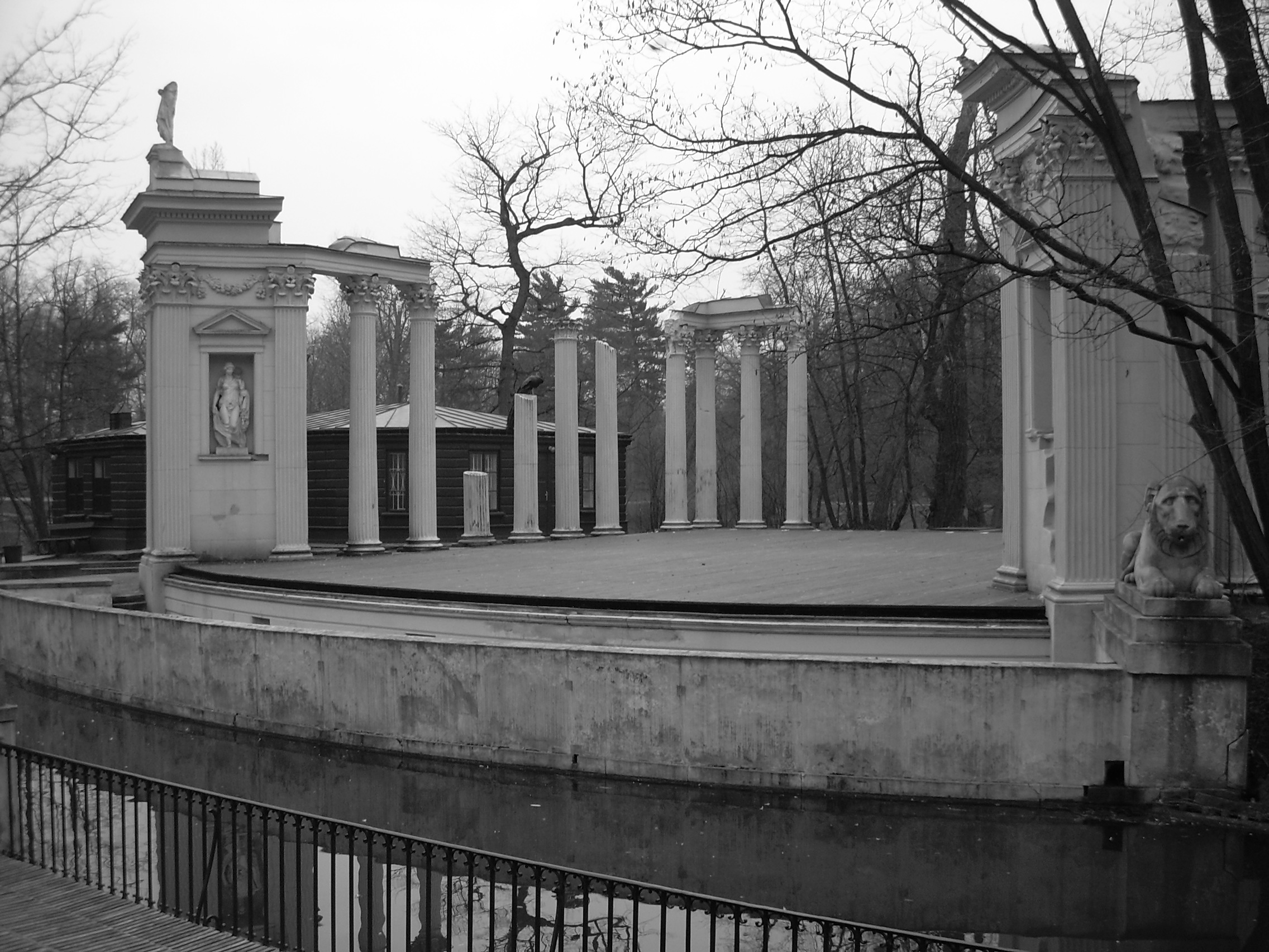 Open-air theatre in Lazienki Park in Warsaw in early spring, black-and-white photograph.